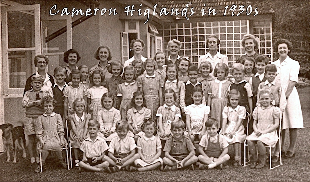 Miss Anne Griffith-Jones (back row, fifth from left) outside the Tanglin Boarding School, Tanah Rata, Cameron Highlands, Pahang, West Malaysia.